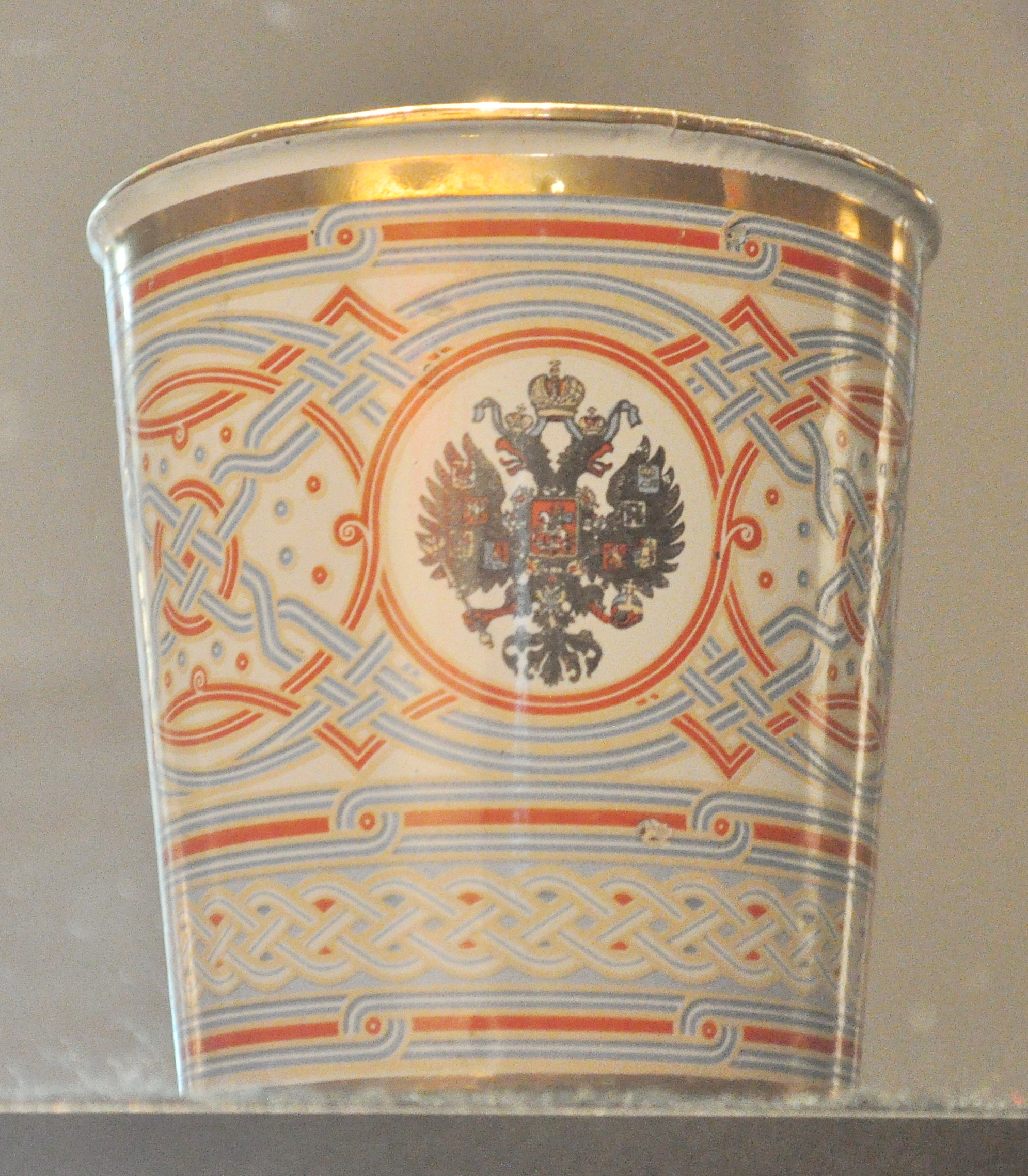 Khodynka Cup of Sorrows. This particular cup belonged to American diplomat Clinton Ferry. On exhibit as part of Glasnost & Goodwill: Citizen Diplomacy in the Northwest, an exhibit at the Washington State History Museum, Tacoma, Washington, U.S. October 7, 2017 - Sunday, January 21, 2018.